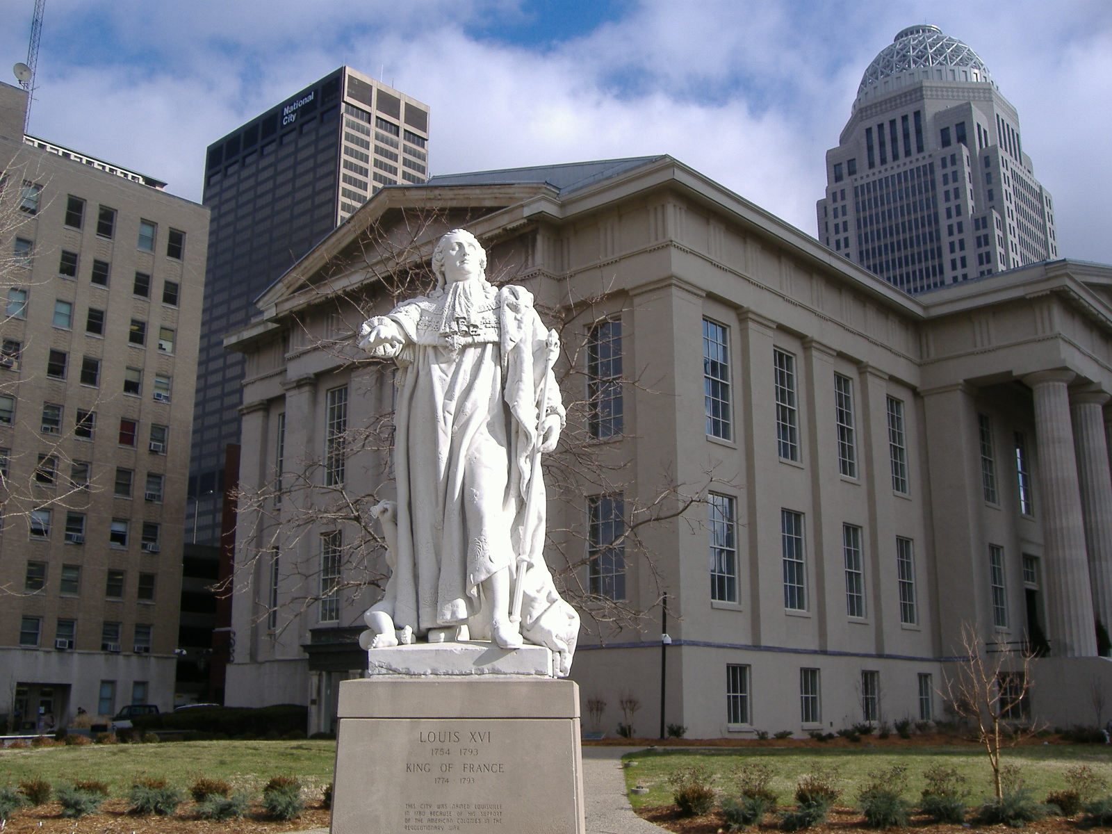 Statue of Louis XVI of France in Louisville, Kentucky